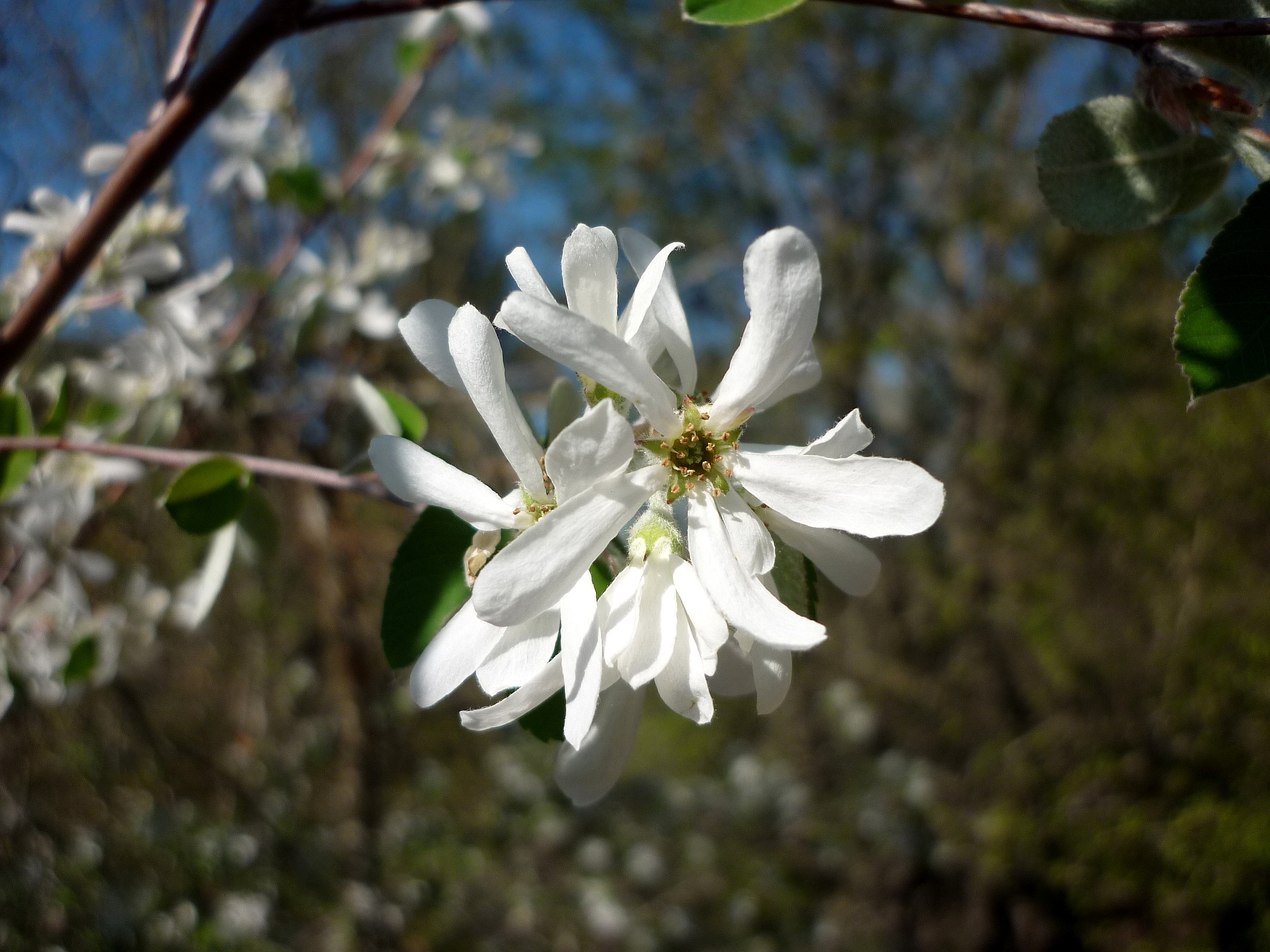 Amelanchier ovalis . In Pinós (Solsonès - Catalunya). To 620 m. altitude